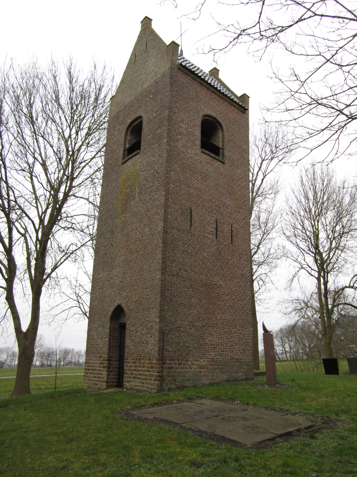 Miedum (county Friesland,The Netherlands): remaining tower of church. Churchyard.